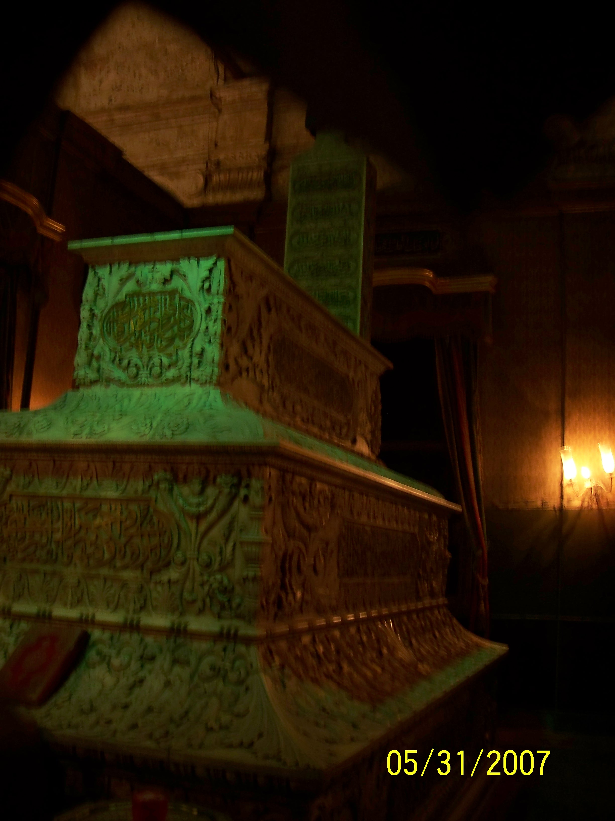 The Tomb of Muhammad Ali Pasha inside Alabaster Mosque in Cairo. Taken by myself. May 31, 2007.